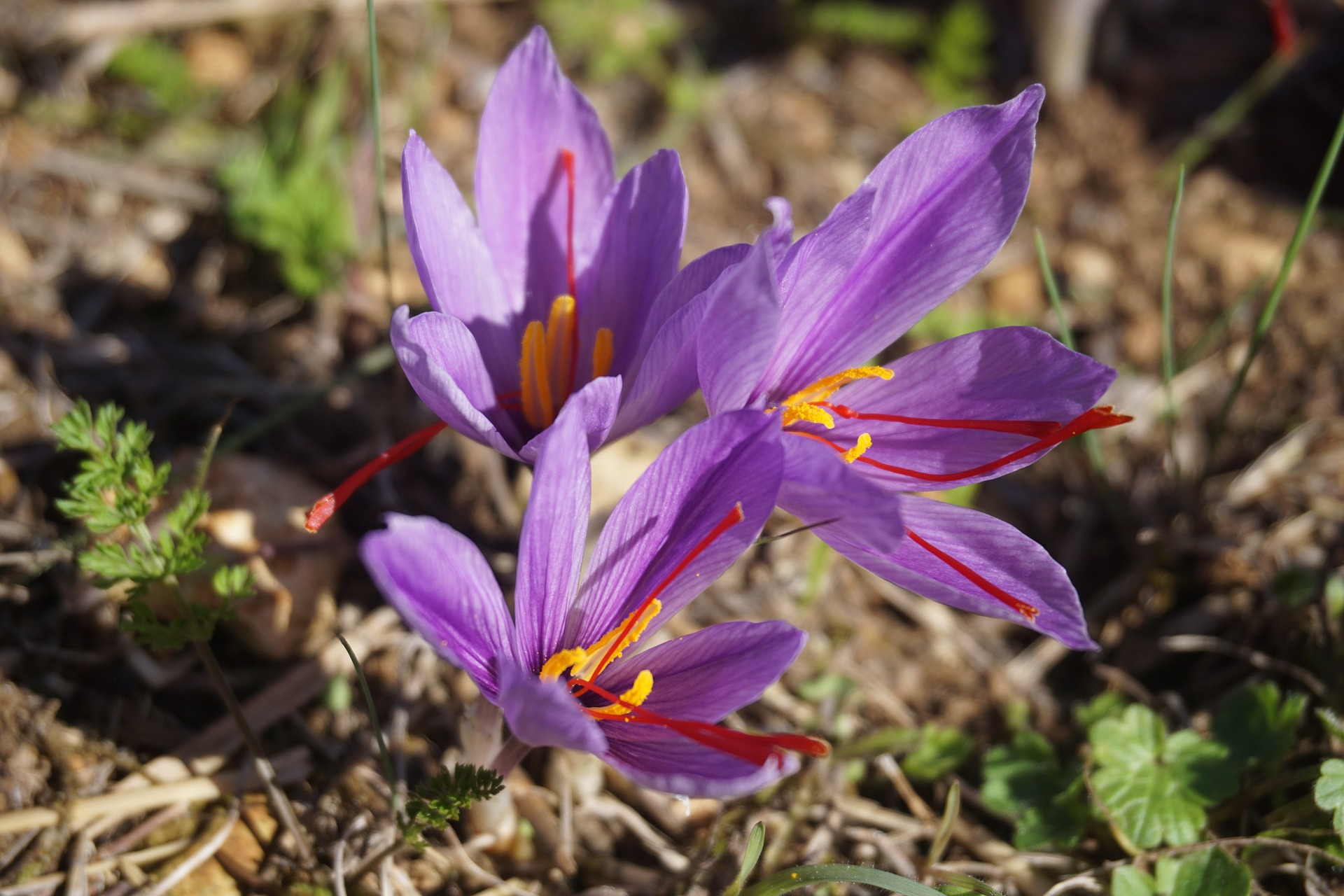 saffron spice